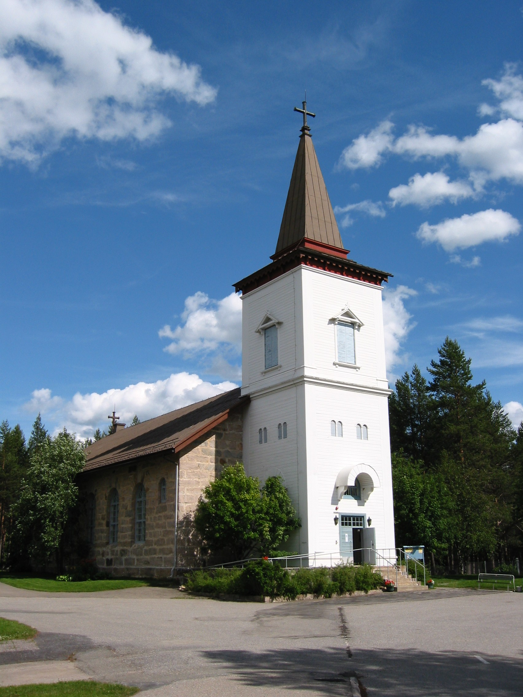 Sodankylä newer church, Finland. Completed in 1859. Architect: Ludvig Isak Lindqvist.